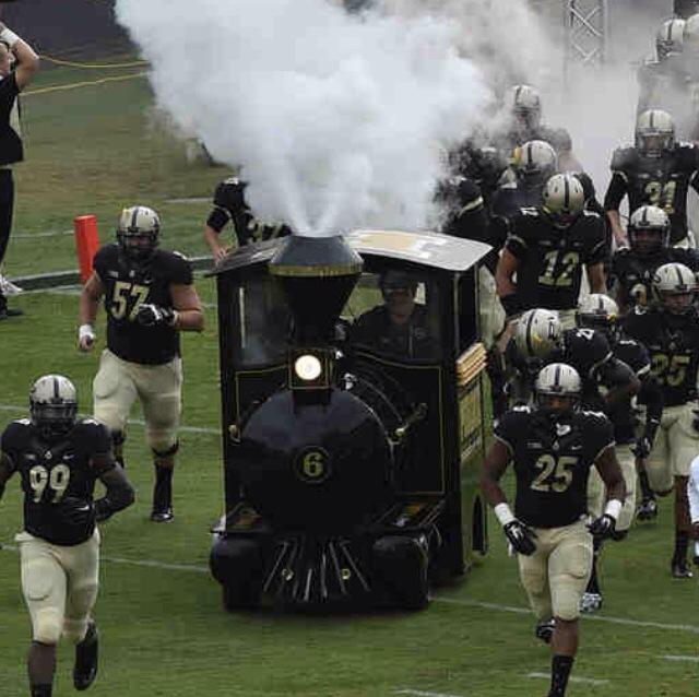 BMS VI